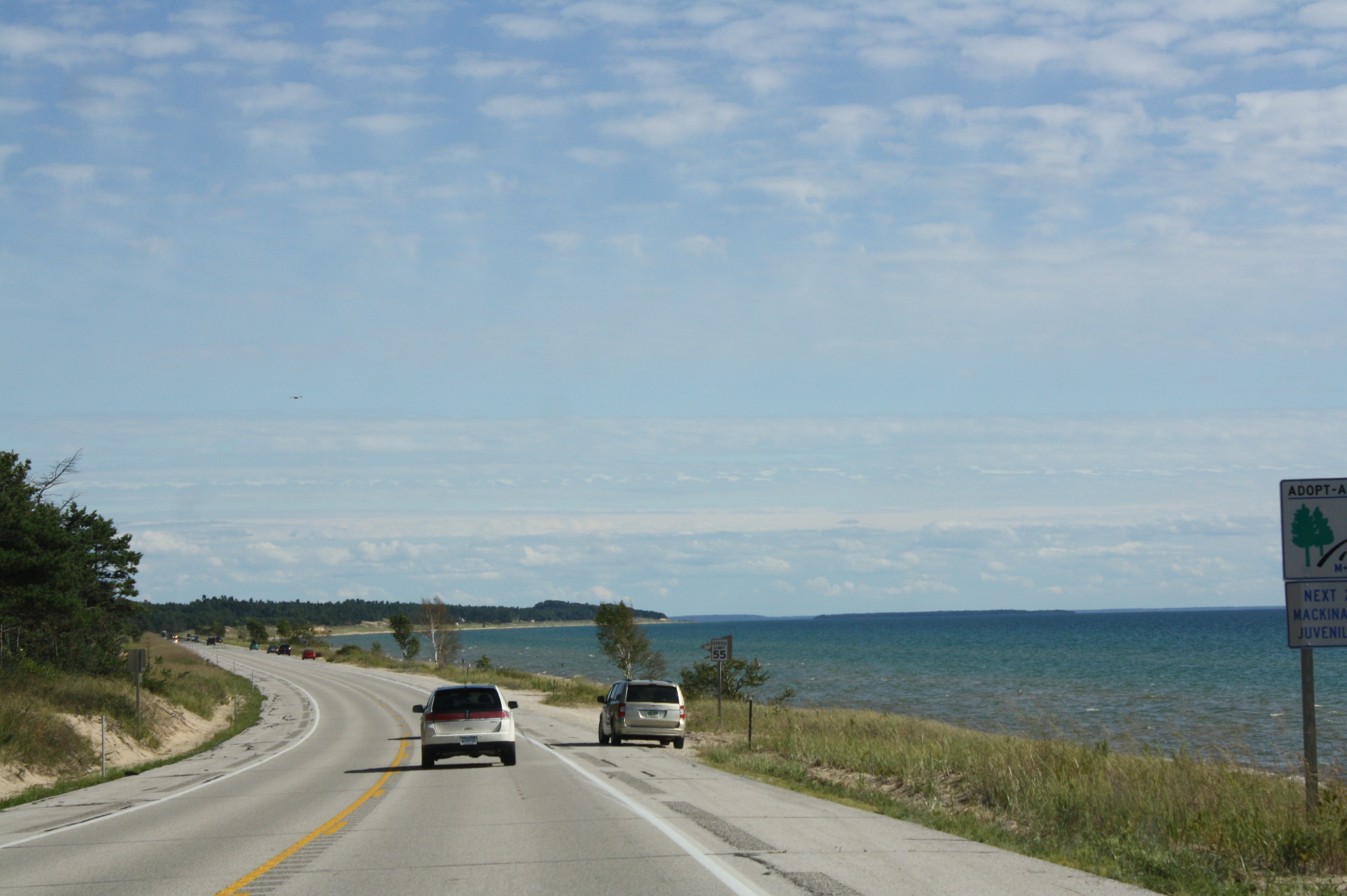 View of Lake Michigan while traveling eastbound on U.S. Route 2 in Michigan east of Brevort, Michigan on the Lake Michigan Circle Tour.